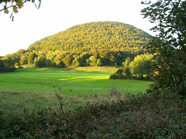 Skyhill (or Scacafell) at the foot of Glen Auldyn